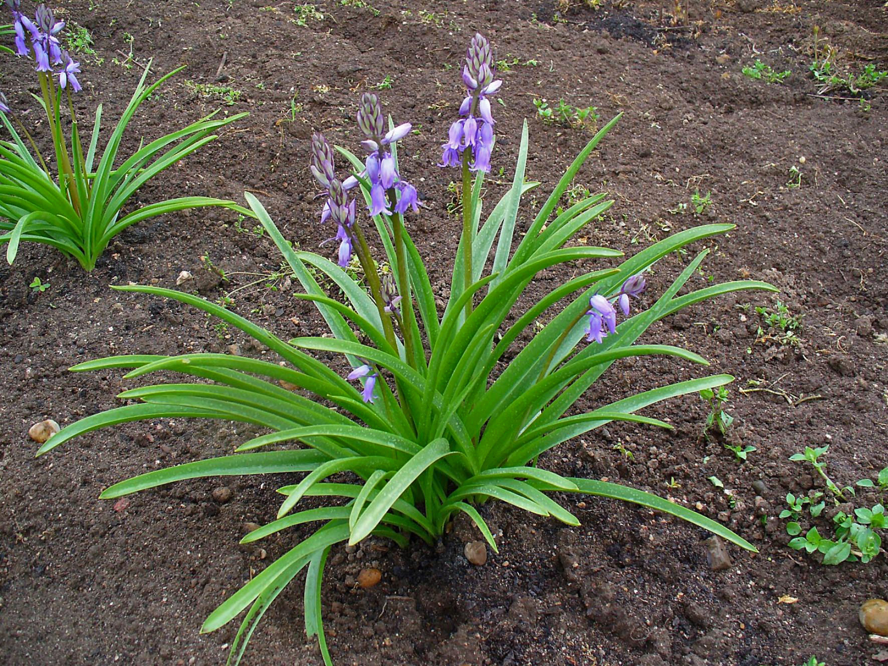 Hyacinthoides non-scripta, Hyacinthaceae, Common Bluebell, habitus. The fresh, blooming haulm is used in homeopathy as remedy: Agraphis nutans (Agra.)